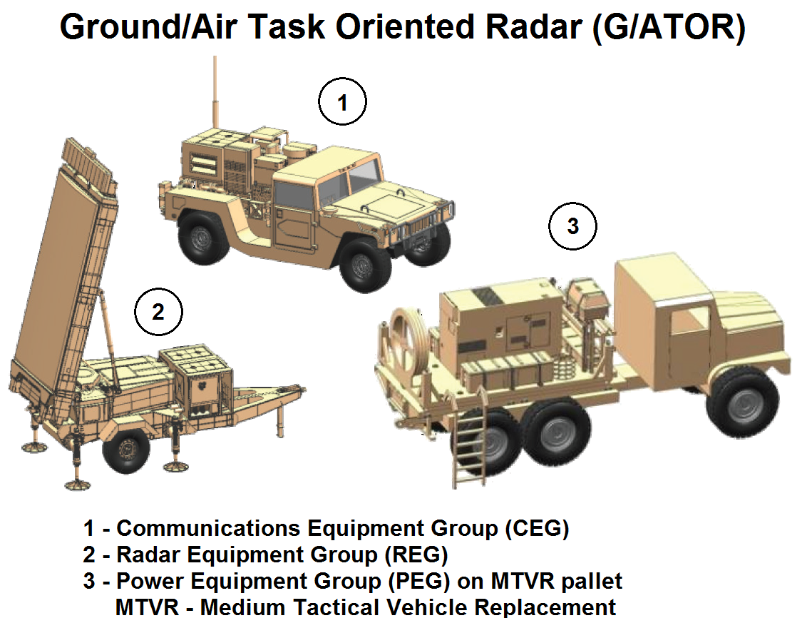 The G/ATOR baseline system configuration is comprised of three subsystems: Radar Equipment Group (REG). The REG consists of the phased-array radar mounted on an integrated trailer. The trailer is towed by the Medium Tactical Vehicle Replacement. Power Equipment Group (PEG). The PEG includes a 60-kilowatt generator and associated power cables mounted on a pallet. The generator pallet is carried by the Medium Tactical Vehicle Replacement. Communications Equipment Group (CEG). The CEG provides the ability to communicate with and control the radar and is mounted inside the cargo compartment of the High Mobility Multi-purpose Wheeled Vehicle.